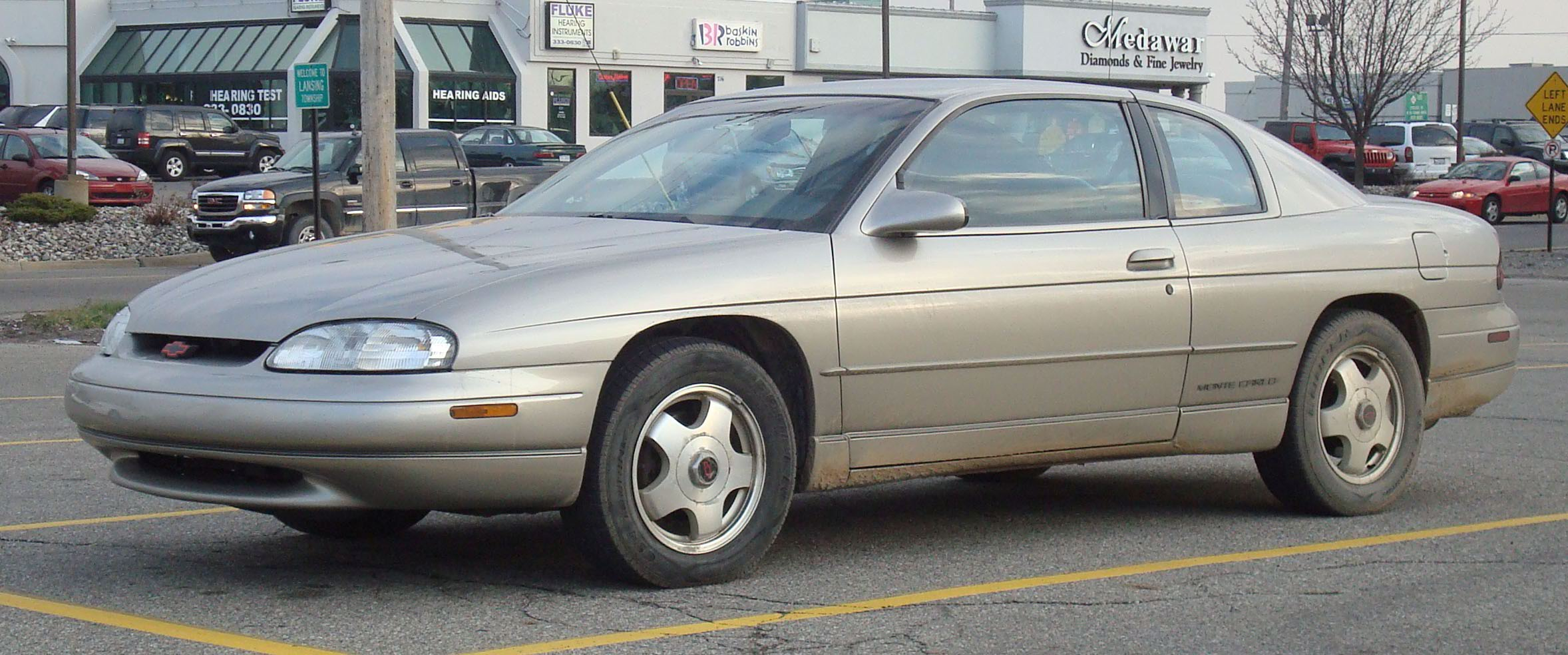 1998-1999 Chevrolet Monte Carlo Z34 photographed in Lansing, Michigan.